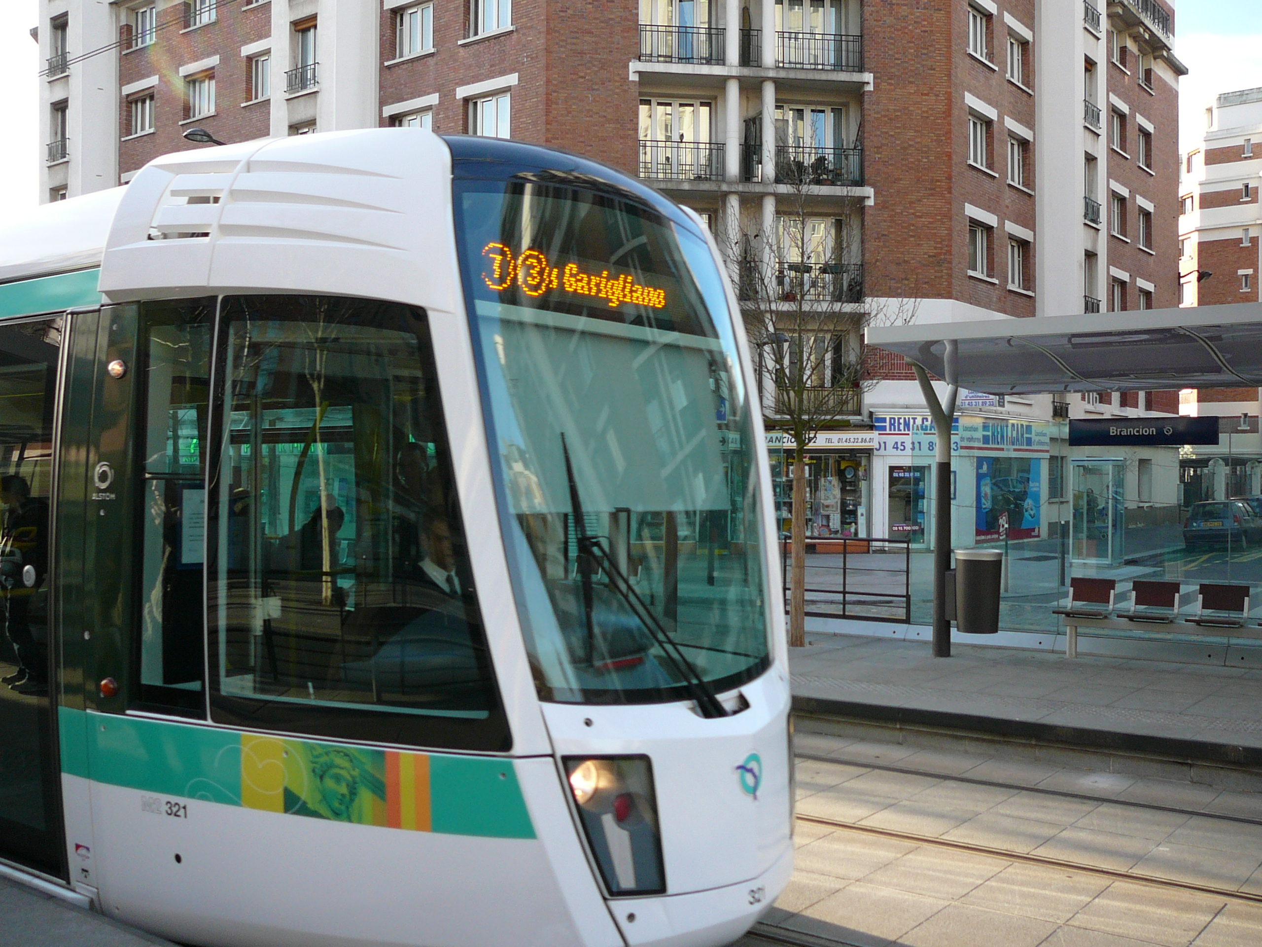 Paris Tramway T3 at Brancion station - Tramway de Paris, ligne T3, station Brancion